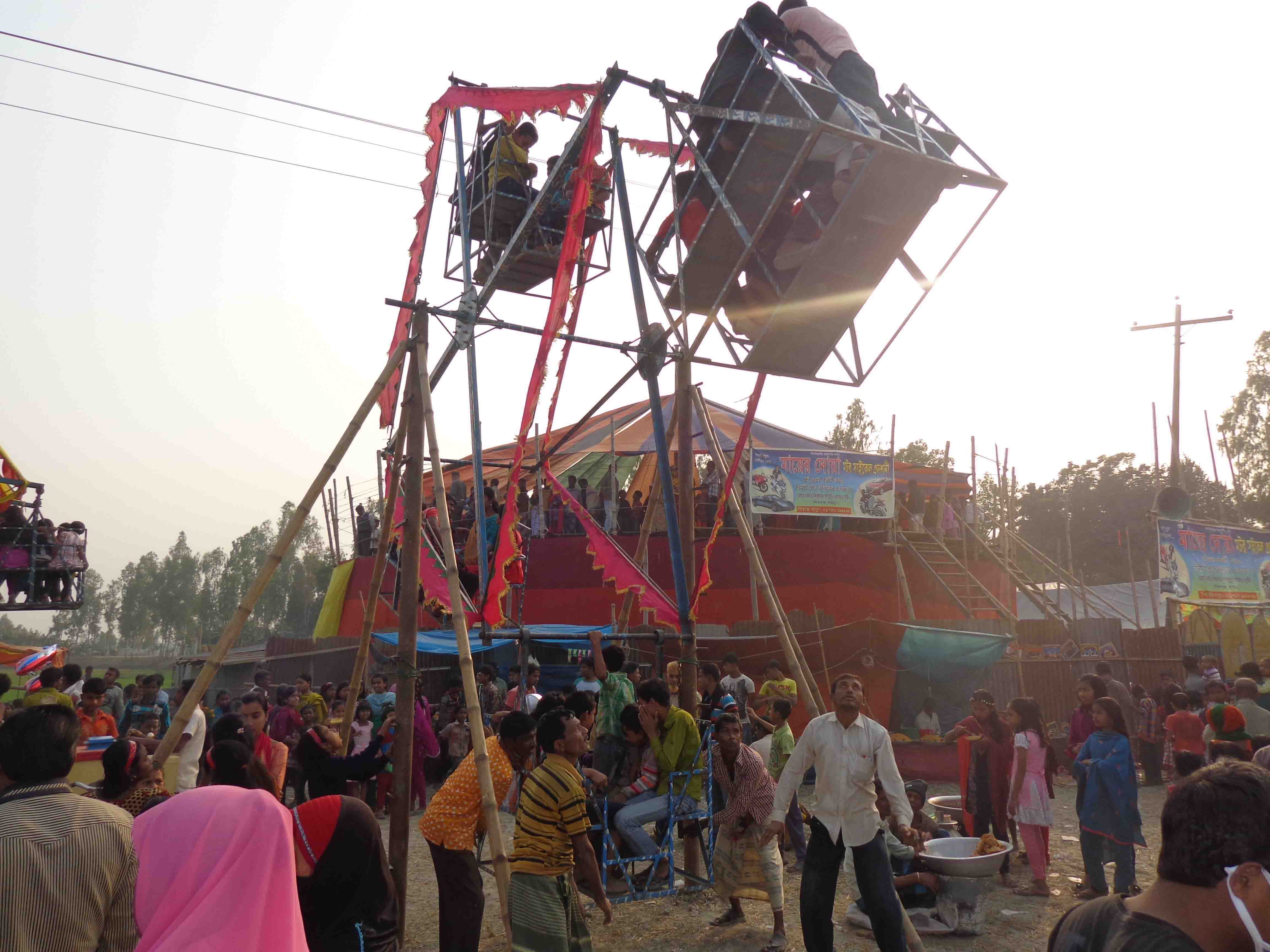 A village Fair